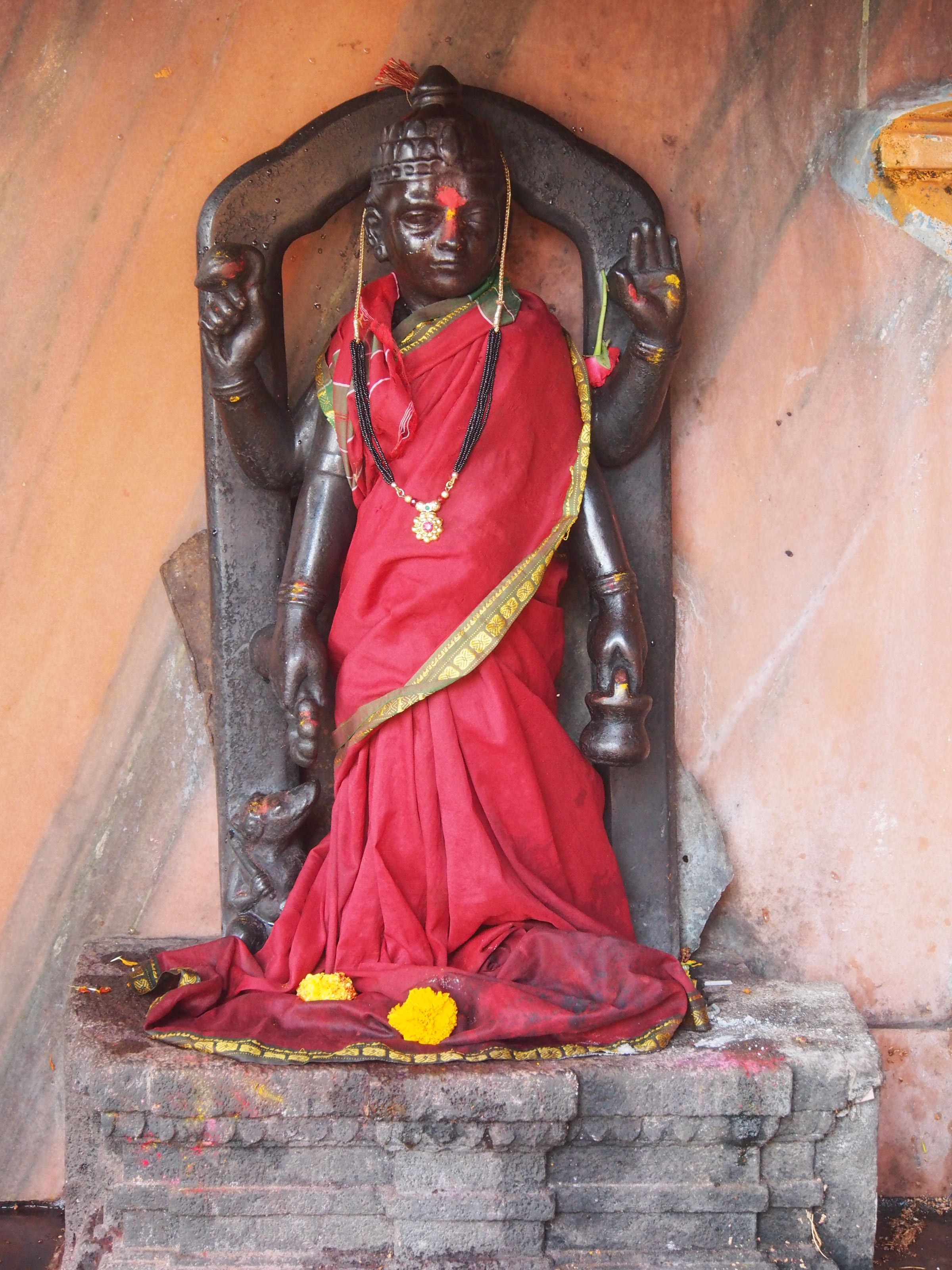 Godavari Devi Statue at Gangadwar, Triambak